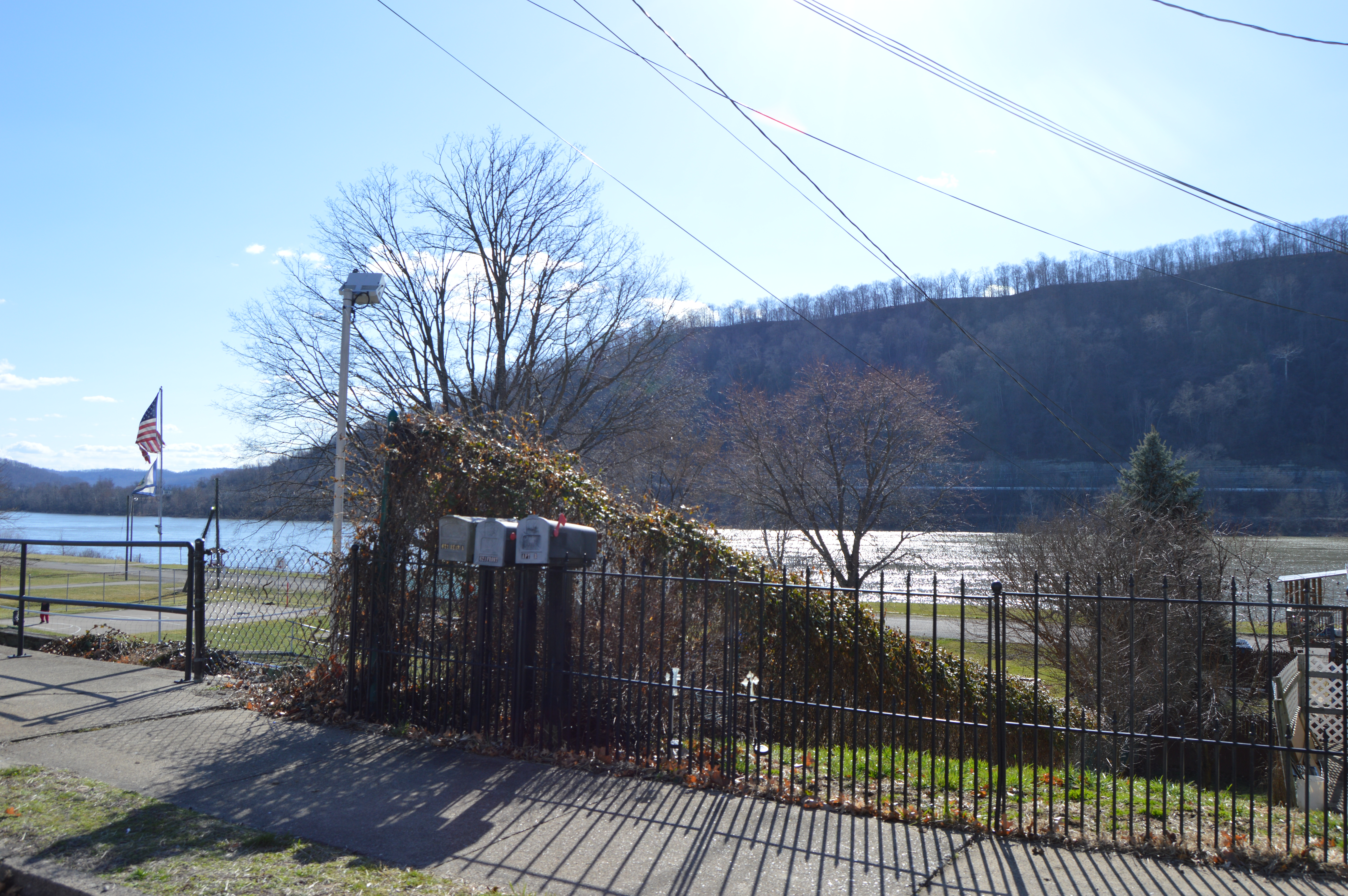 Overview of the site once occupied by the McMechen Lockmaster Houses on the Ohio River, which were formerly located at 623-625 Grant Street in McMechen, West Virginia, United States. Built in 1910, the two houses were listed on the National Register of Historic Places in 1992; although since destroyed, they have not officially been removed from the Register. In the distance, at right, one can see Ohio State Route 7 in Pultney Township, Belmont County, Ohio.